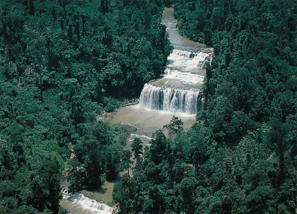 Self-made/self-published (by me, Randolf Delen). Some rights reserved.